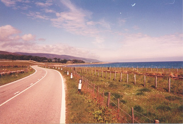 The A9 north of Brora, Scotland.